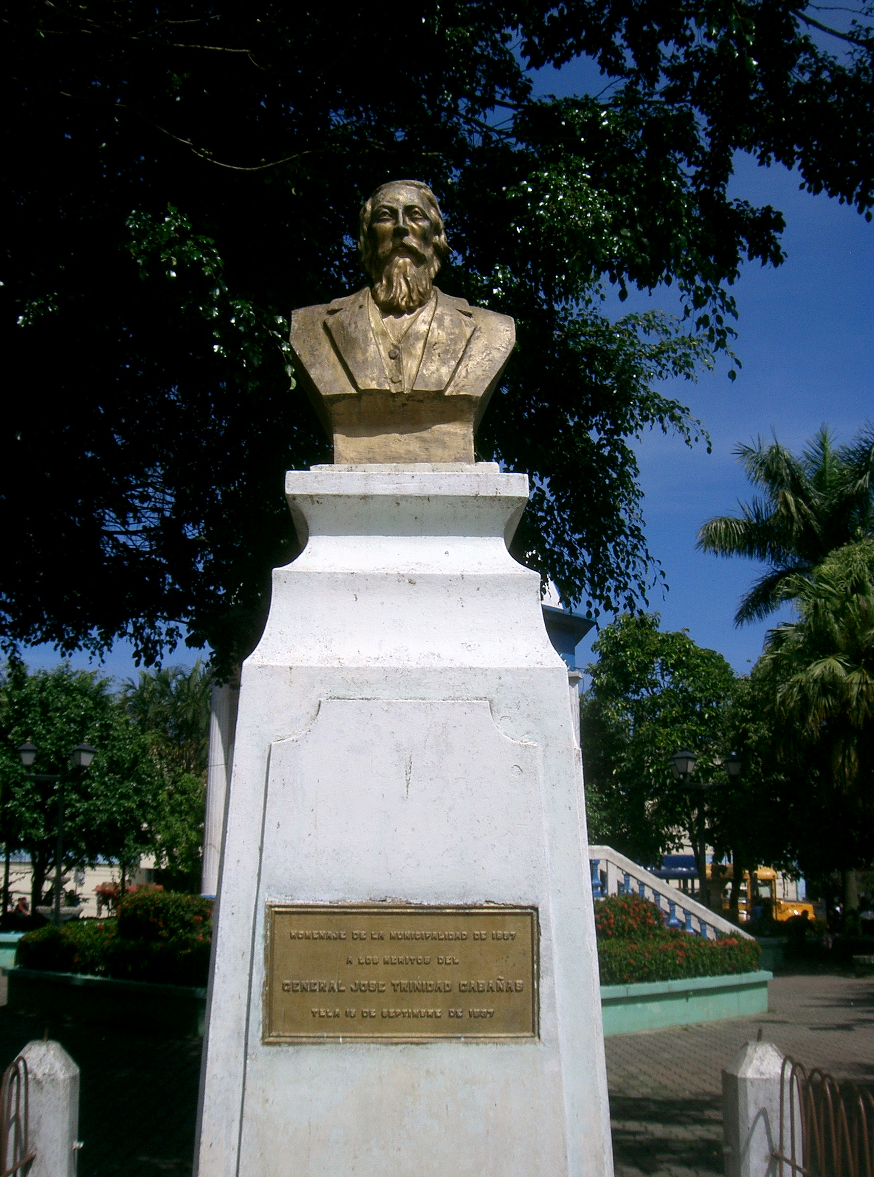 Statue in honor of José Trinidad Cabañas in city of Tela, Atlantida department, Honduras. Photo taken by myself (Ricky Ng-Adam) on March 14th 2007.